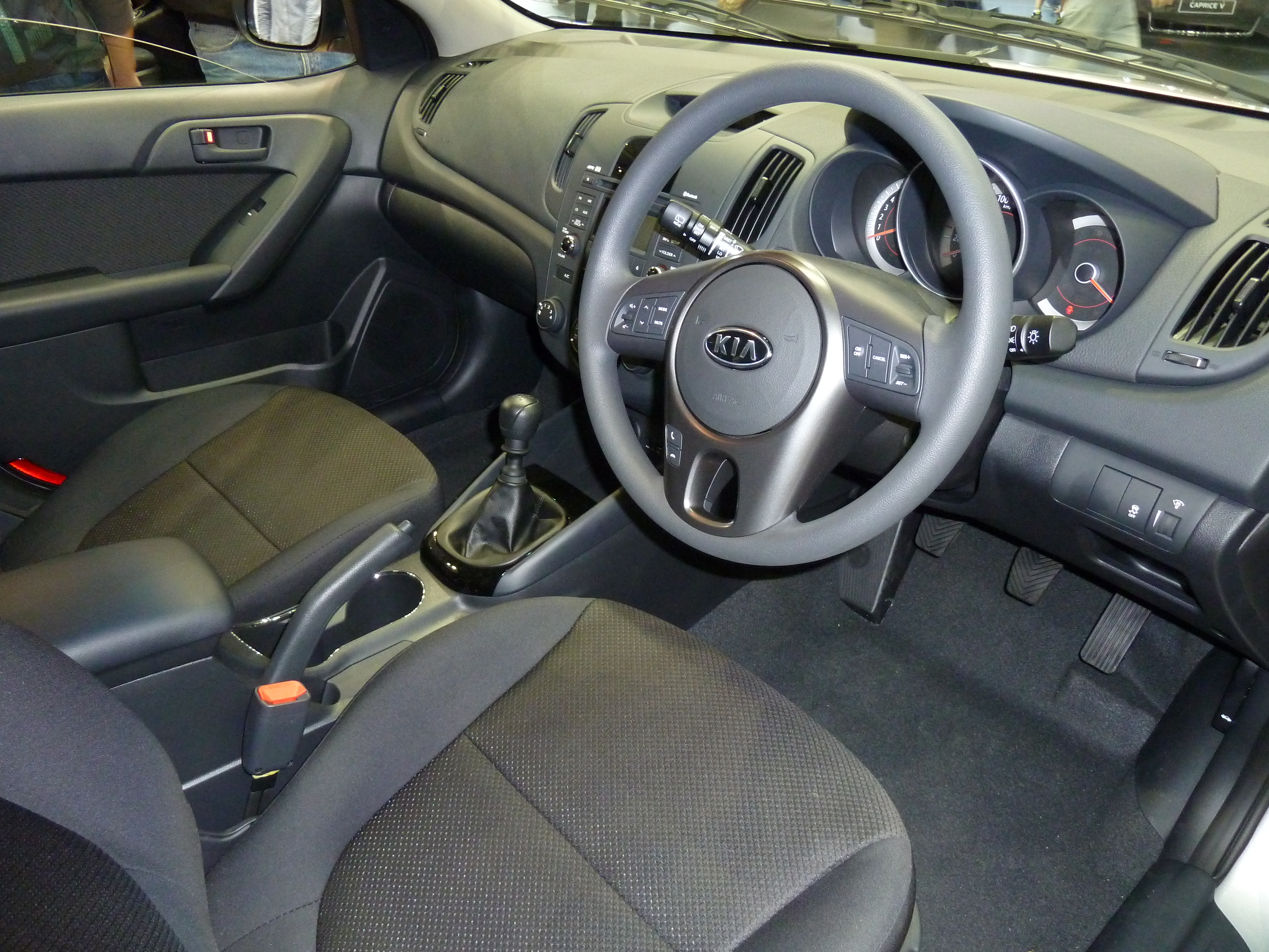 2010 Kia Cerato (TD MY11) Si hatchback. Photographed at the 2010 Australian International Motor Show, Sydney, New South Wales, Australia.